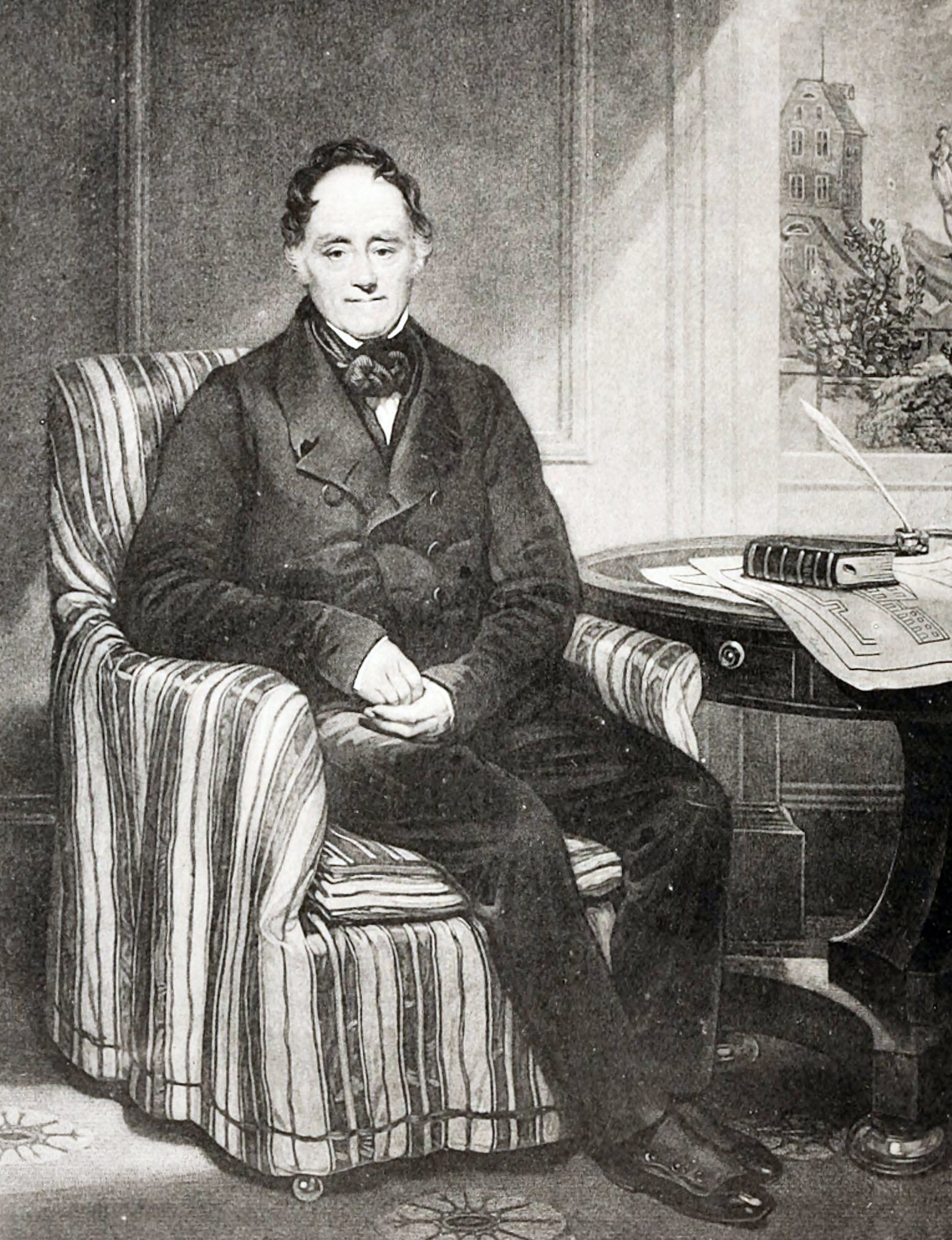 George Green , 1767–1849. Businessman. Became a partner in the Blackwall shipbuilding Yard after marrying the bosses daughter and then later in various named partnerships operating on the site.